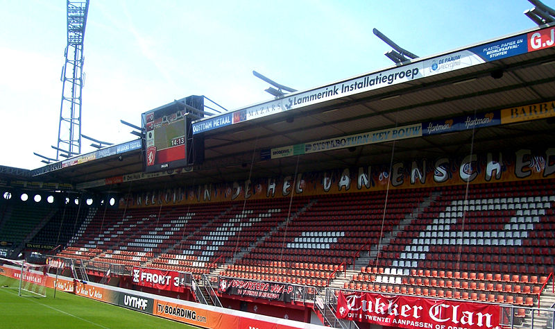 Photo taken by Ultras GE